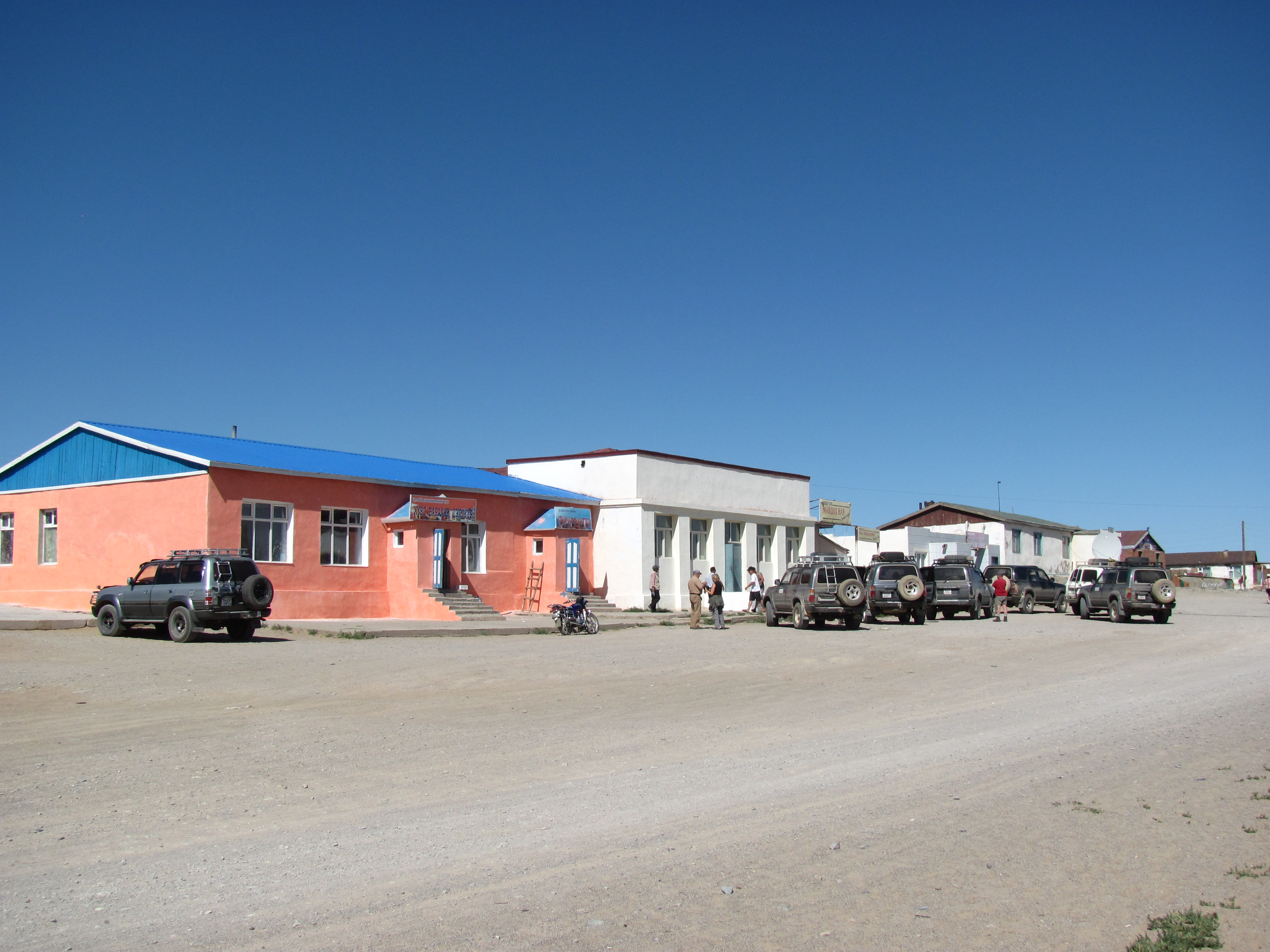 Main street, Erdenedalai, Dundgov Aimag, Mongolia.